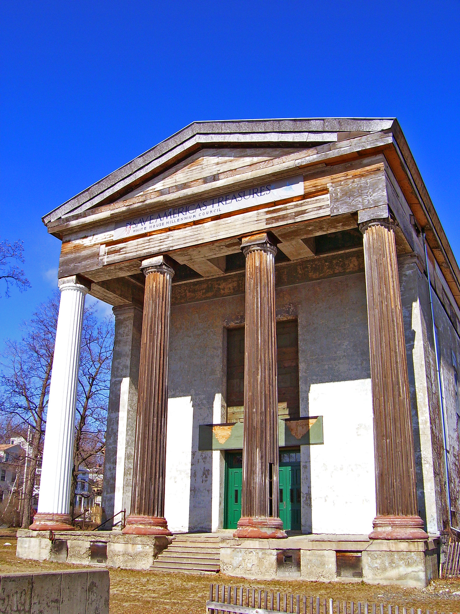 Dutch Reformed Church, Newburgh — in New York. Earlier version of Image:Dutch Reformed Church, Newburgh NY.jpg (en:2006-02-27) by User:Daniel Case, uploaded under the same as the original license.